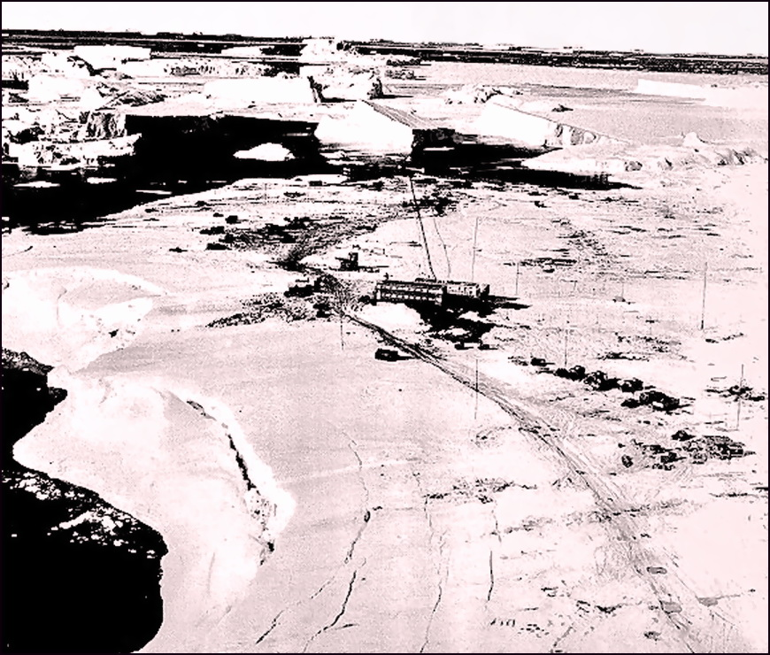 Mirny Station (or Mirny Observatory)